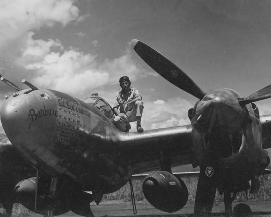 P-38 Lightning, of the 49th Fighter Group, 24 Kills ace Lt Col Gerald Johnson